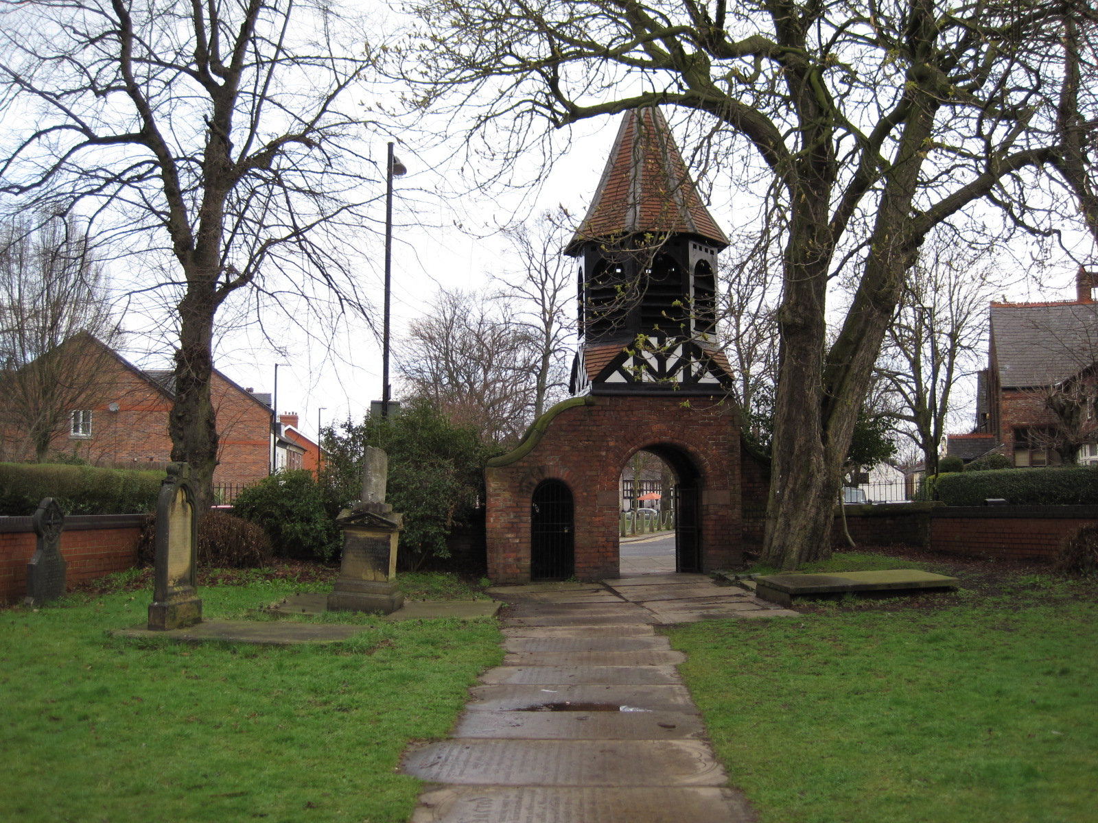 Photograph of the gatehouse to former Church of St Clement, Chorlton-cum-Hardy, Manchester, England